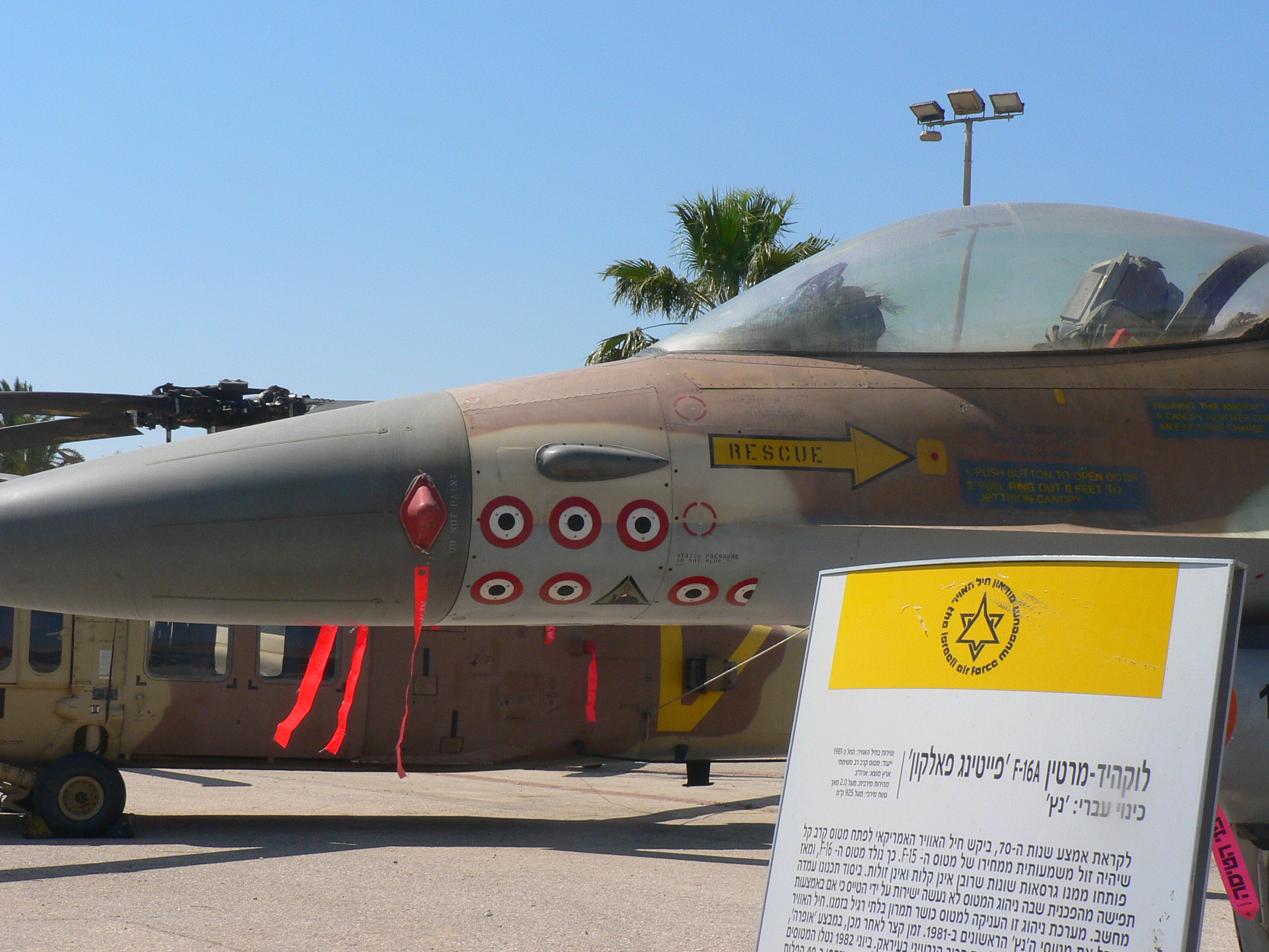 IAF F-16 Netz that shot down seven Syrian airplanes and bombed the nuclear reactor in Iraq. Note: The triangle symbol is a modification of that seen in File:IQAF Symbol.svg